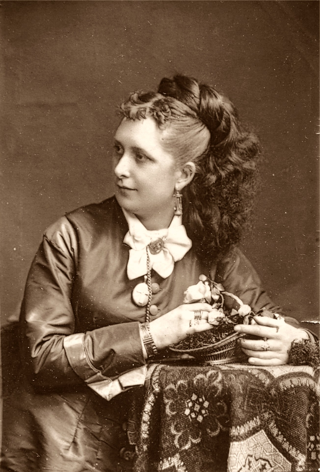 Blanche Cole 1851-1888, English Actress.